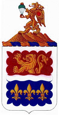 407th Brigade Support Battalion Coat of Arms